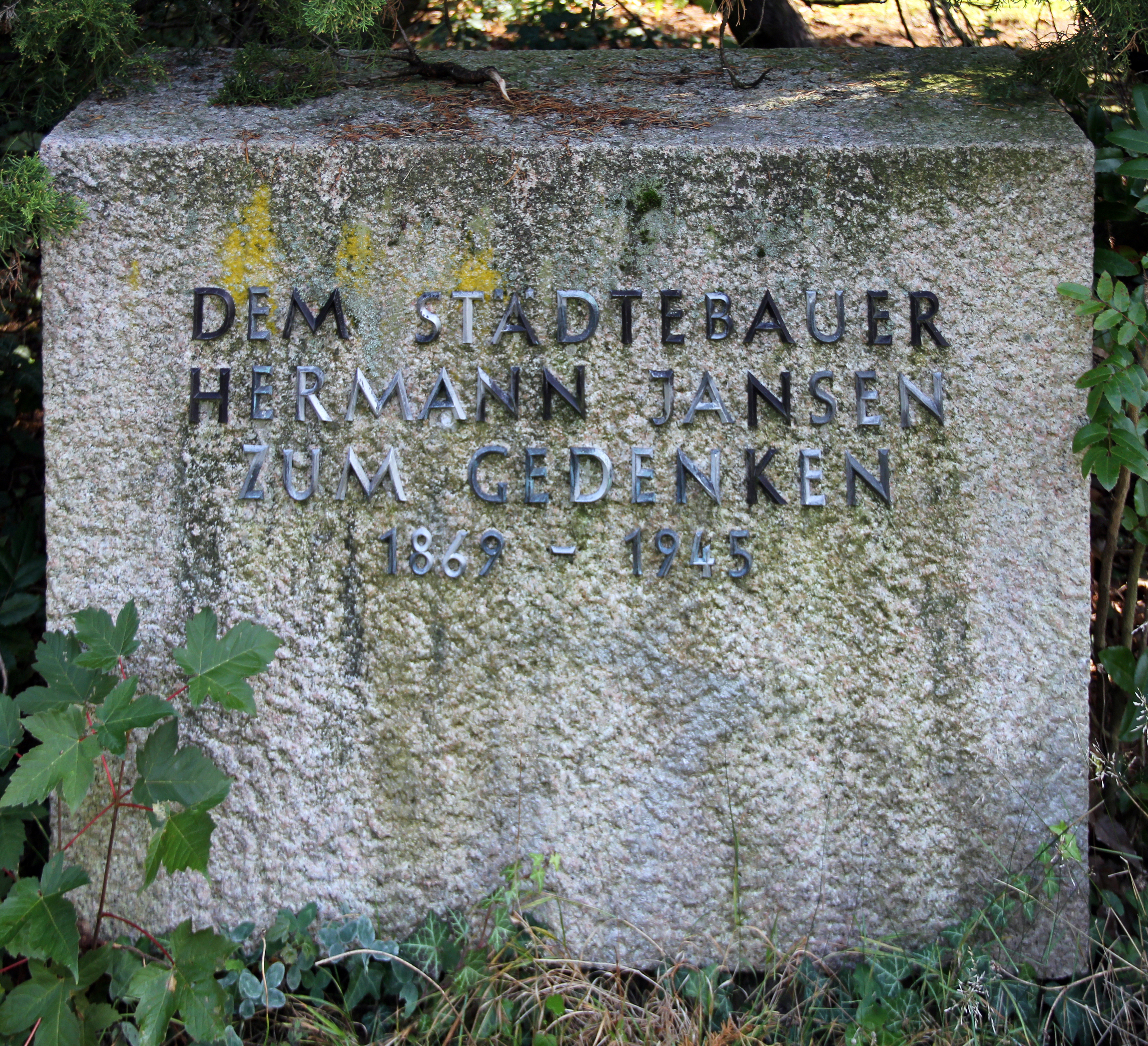 Memorial stone, Hermann Jansen, Faradayweg 4, Berlin-Zehlendorf, Germany